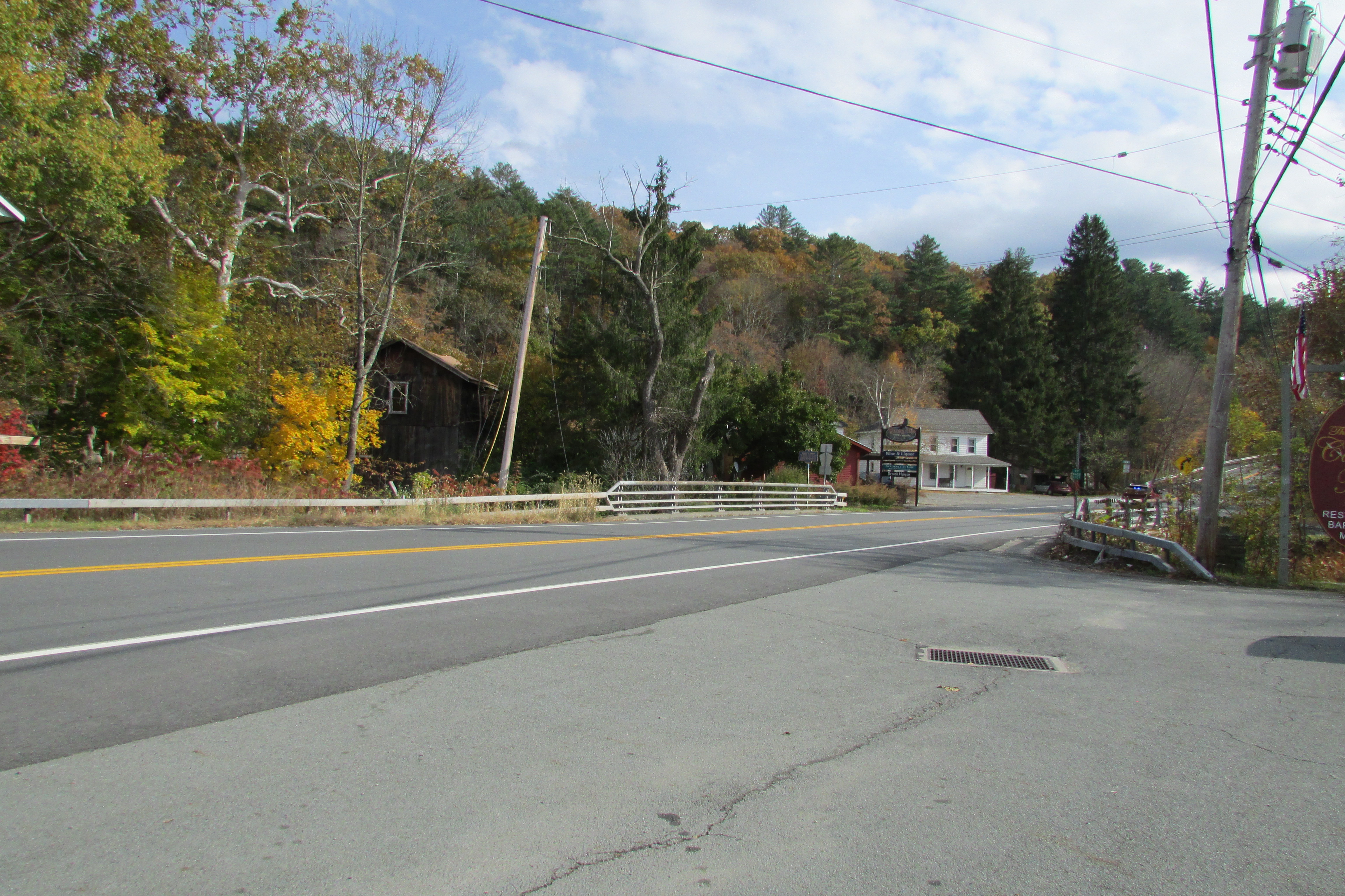 Bridge of NY 97 over Halfway Brook at Barryville, New York.